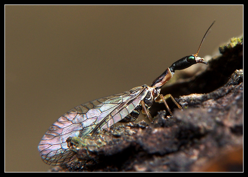 Ornatoraphidia flavilabris previously known as Ornatoraphidia etrusca